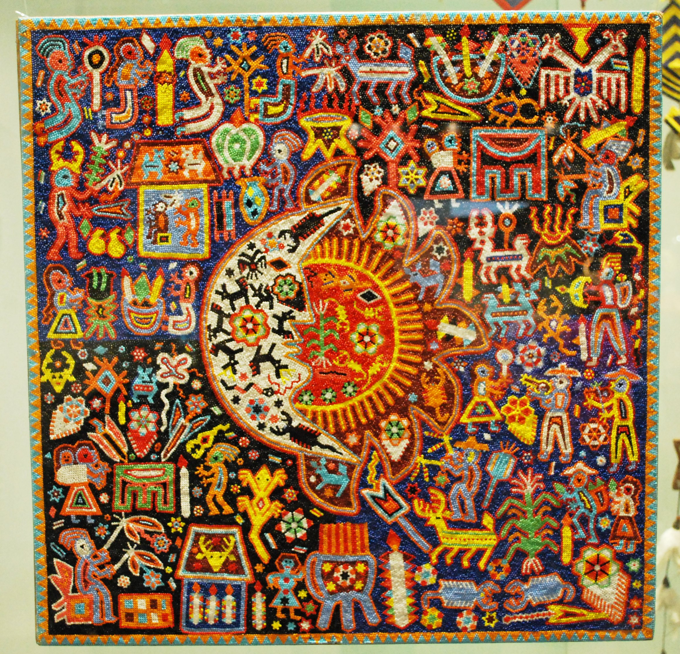 Huichol beaded panel on display at the Museum of Artes Populares in Mexico City